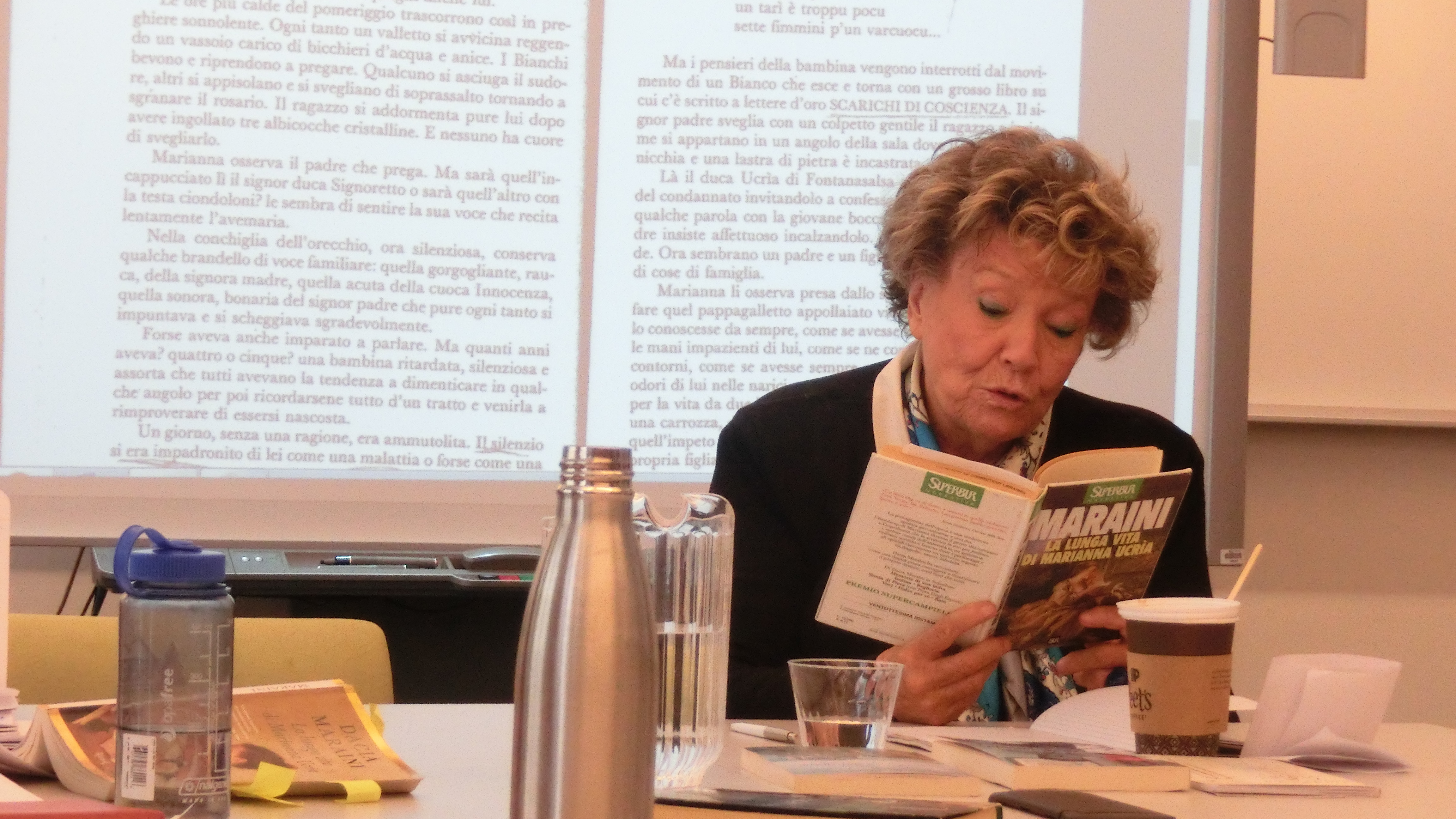 Maraini reading her own work (La lunga vita di Marianna Ucrìa ) at at workshop on Women Italian Writers, organized by the Italian Studies Program at the University of Connecticut.